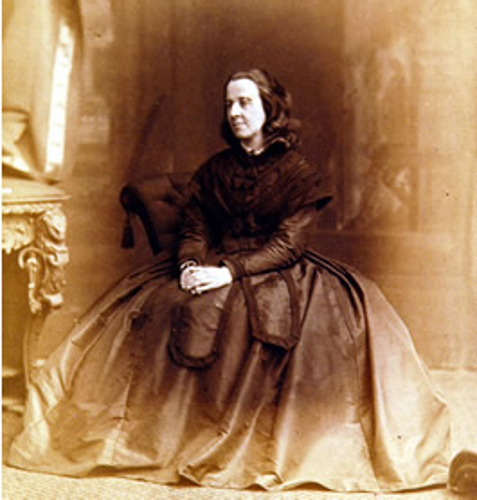 Bessie Rayner Parkes Belloc (16 June 1829 - 23 March 1925) was one of the most prominent English feminists and campaigners for women’s rights in Victorian times and also a poet, essayist and journalist.